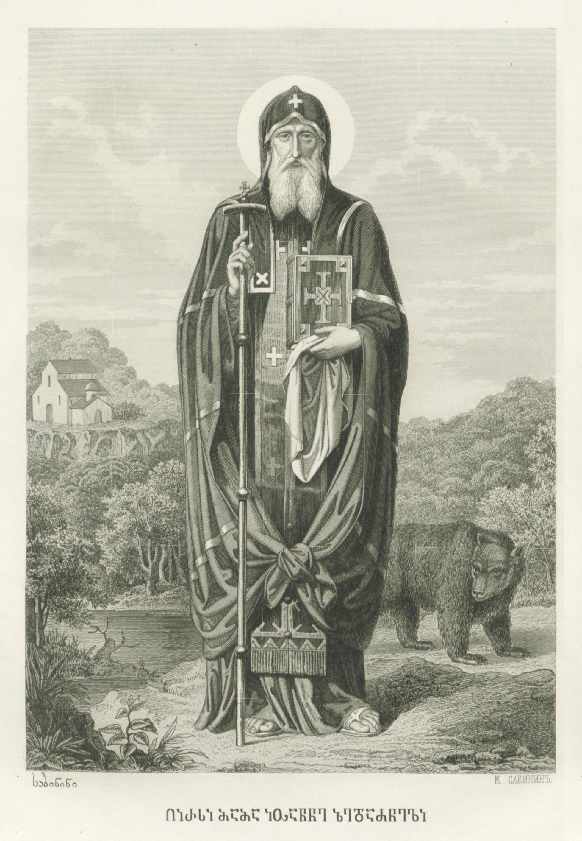 St. Ioane Zedazneli (6th century)